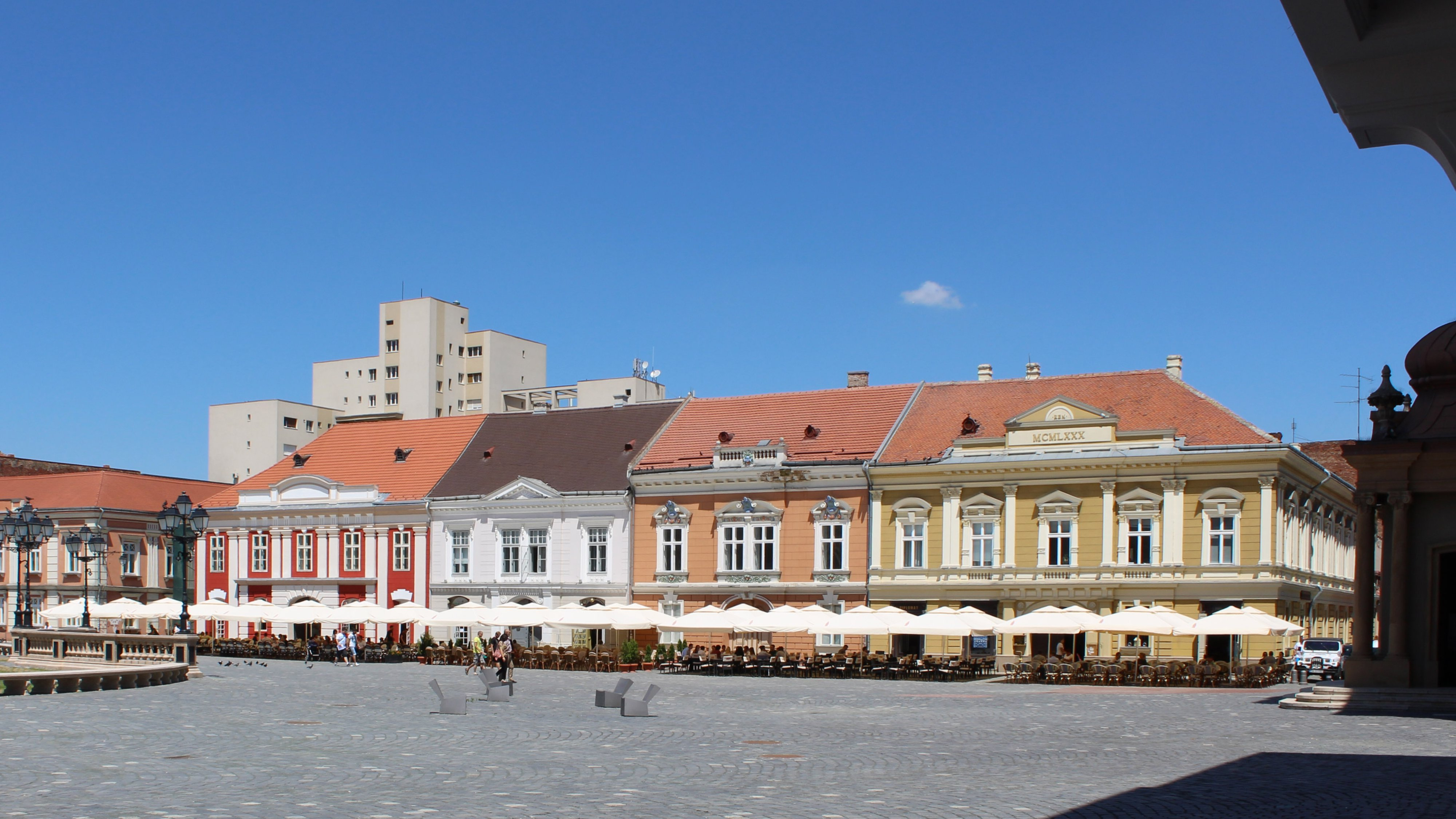 Union Square, clergy's houses, Timișoara, Romania